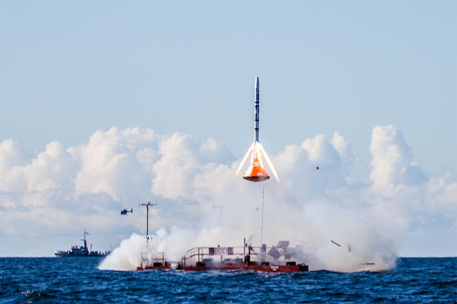 Launch of the Copenhagen Suborbital test vehicle for a Launch Escape System